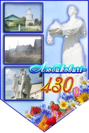 Coat of arms of Lubykovychi